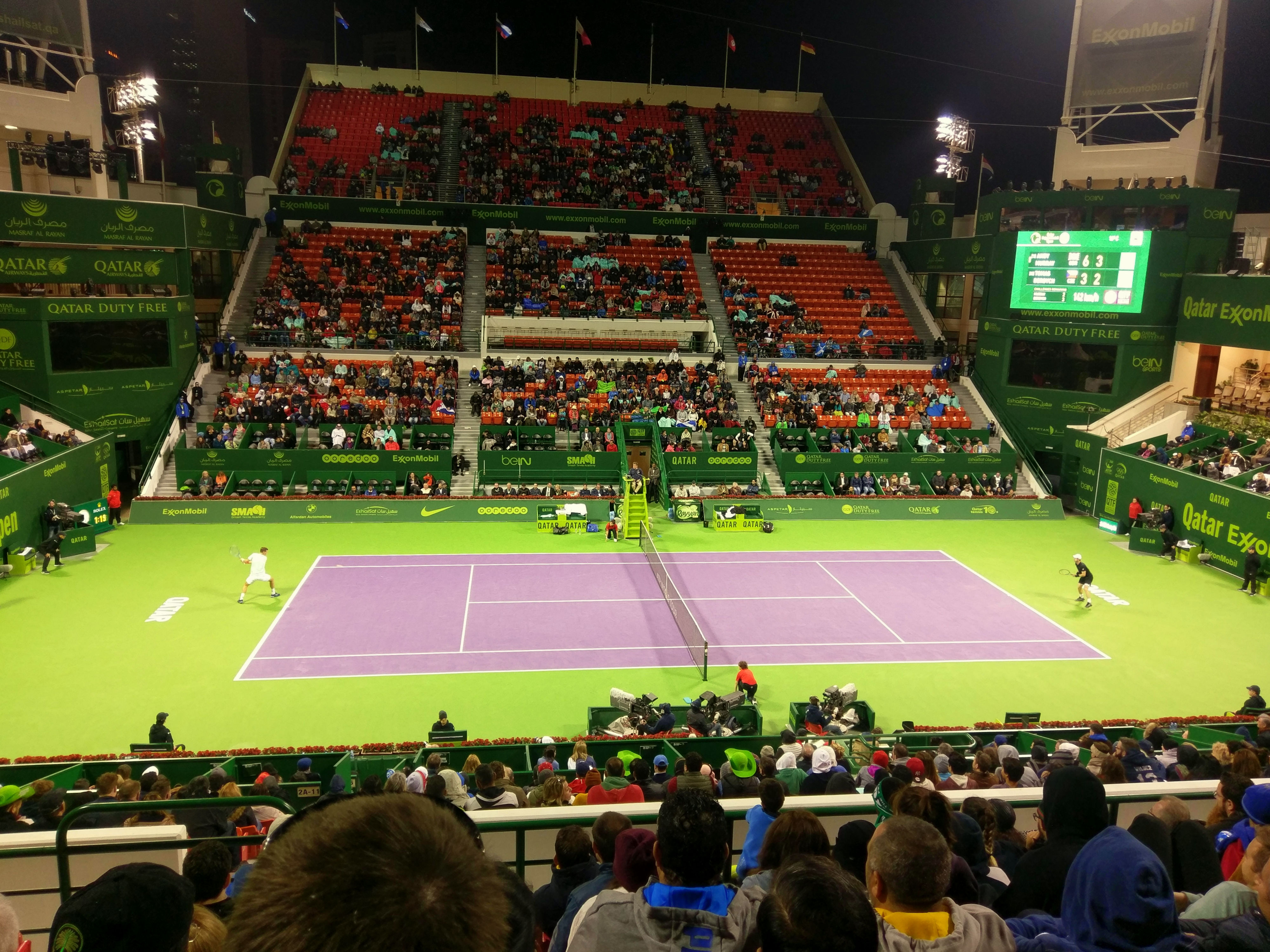 Qatar open 2017 Semifinal, A. Murray vs T. Berdych. Doha, Qatar